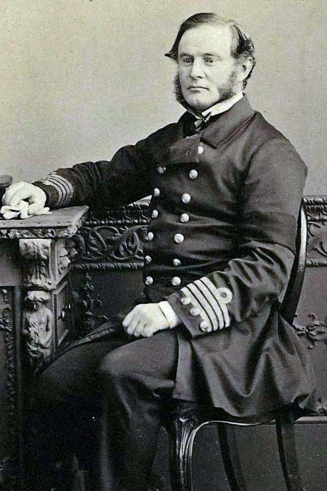 Admiral Sir Augustus Phillimore KCB (24 May 1822 – 25 November 1897) was a Royal Navy officer who went on to be Commander-in-Chief, Plymouth. He is creditted with first proposing the creation of a modern naval dockyard in Gibraltar.